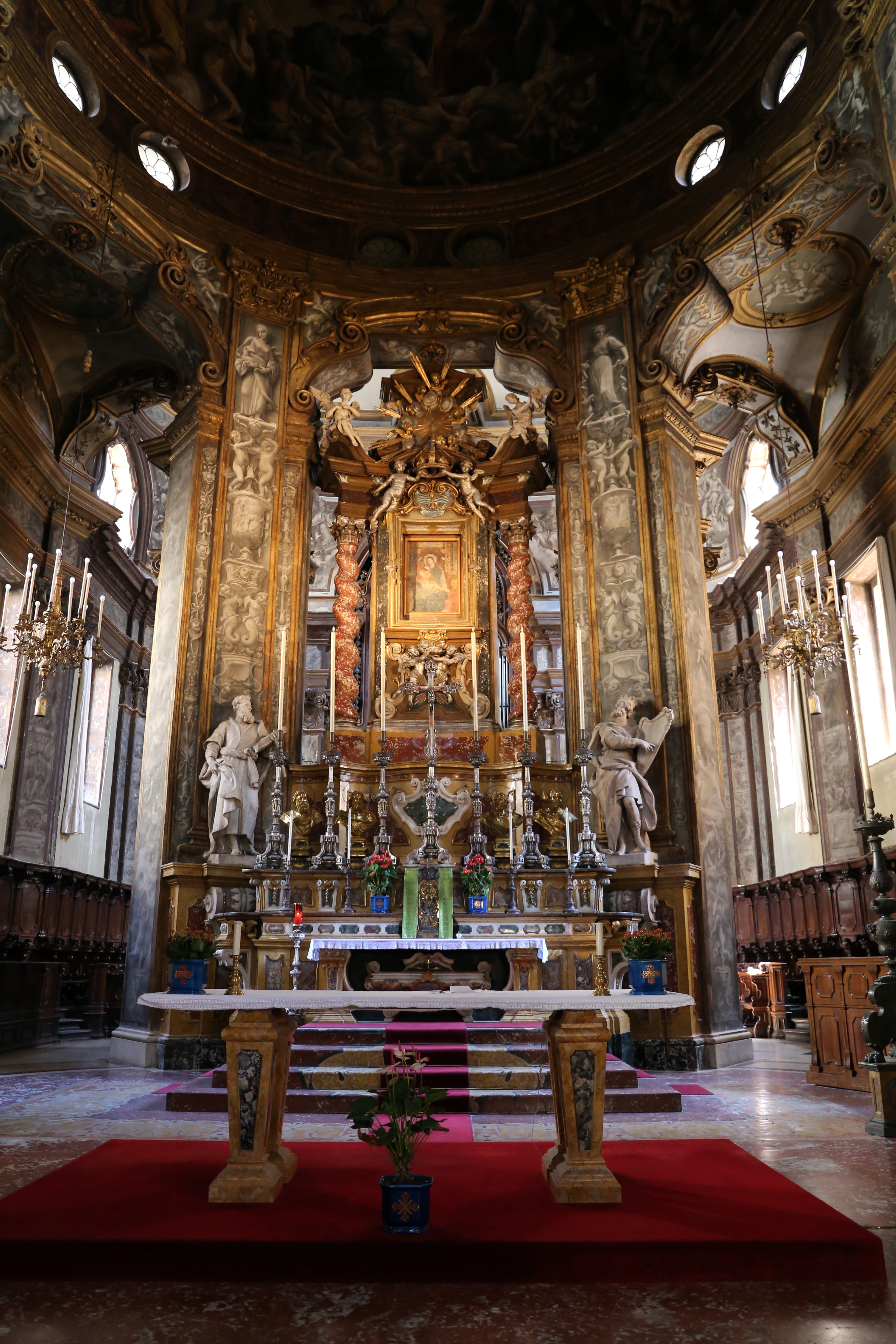 Santa Maria della Steccata (Parma) - Interior